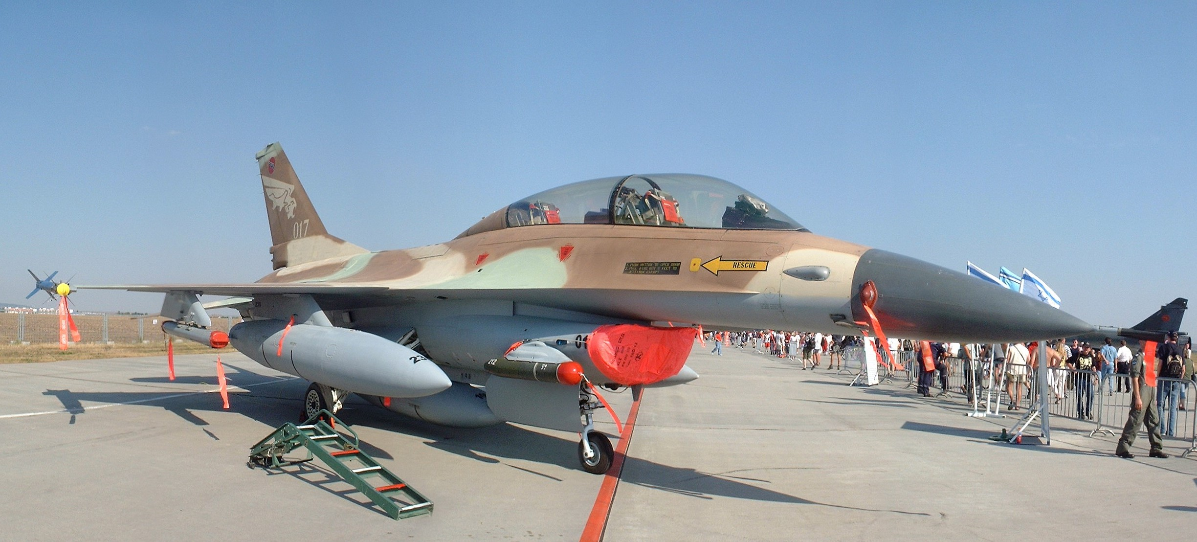 Israeli Air Force F-16B Netz '017' at CIAF 2004, Brno-Turany